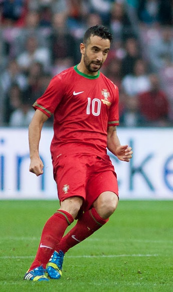 Croatia vs. Portugal, 10th June 2013